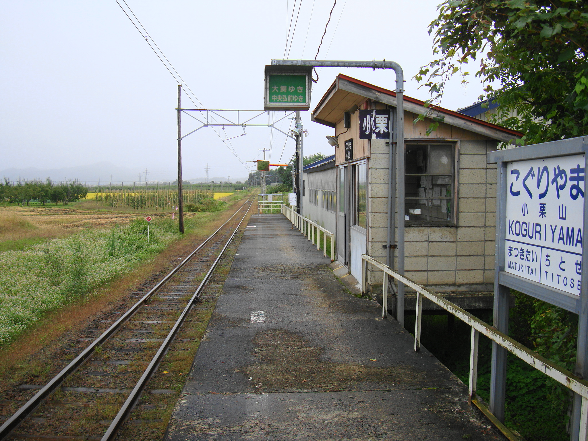 Koguriyama Station